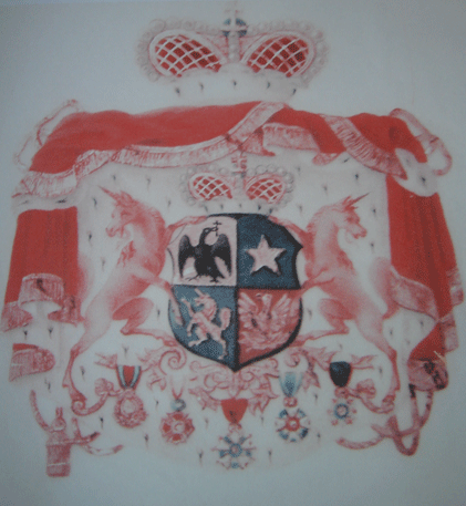 Caradja Coat of arms